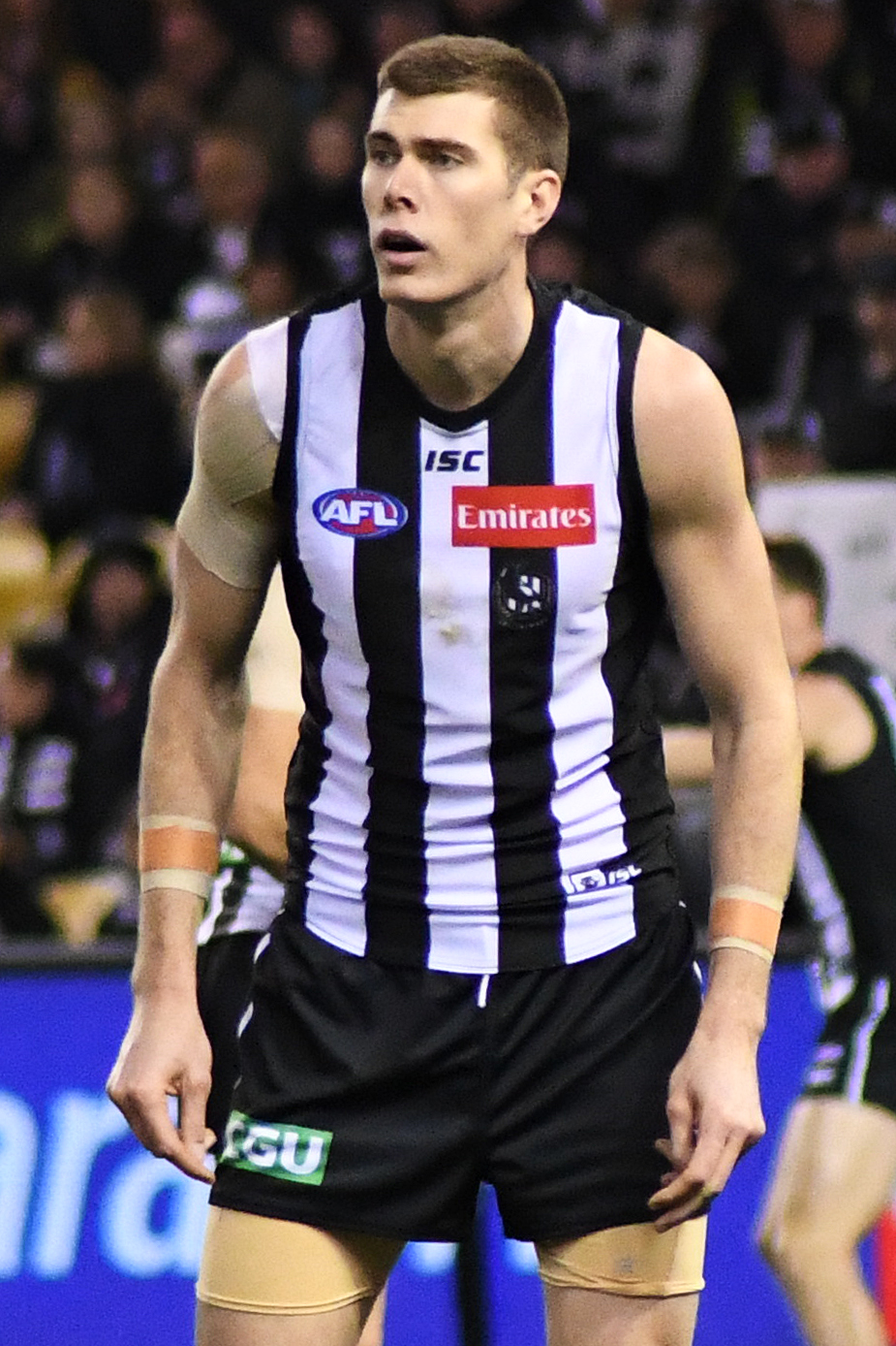 Mason Cox of Collingwood during the 2018 AFL round 21 match between Collingwood and Brisbane at Etihad Stadium on Saturday, 11 August 2018 in Melbourne, Victoria.